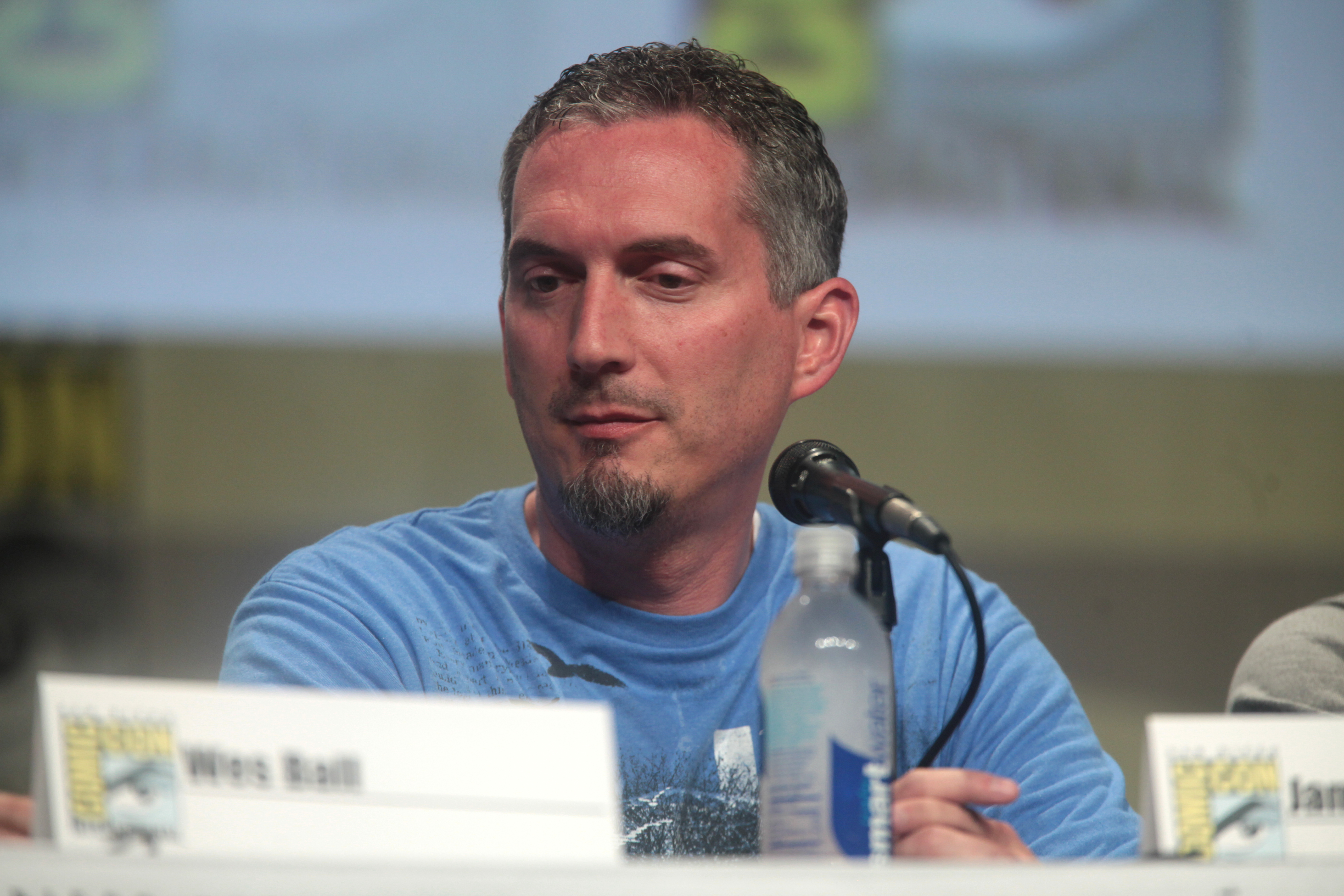 James Dashner speaking at the 2014 San Diego Comic Con International, for "The Maze Runner", at the San Diego Convention Center in San Diego, California.